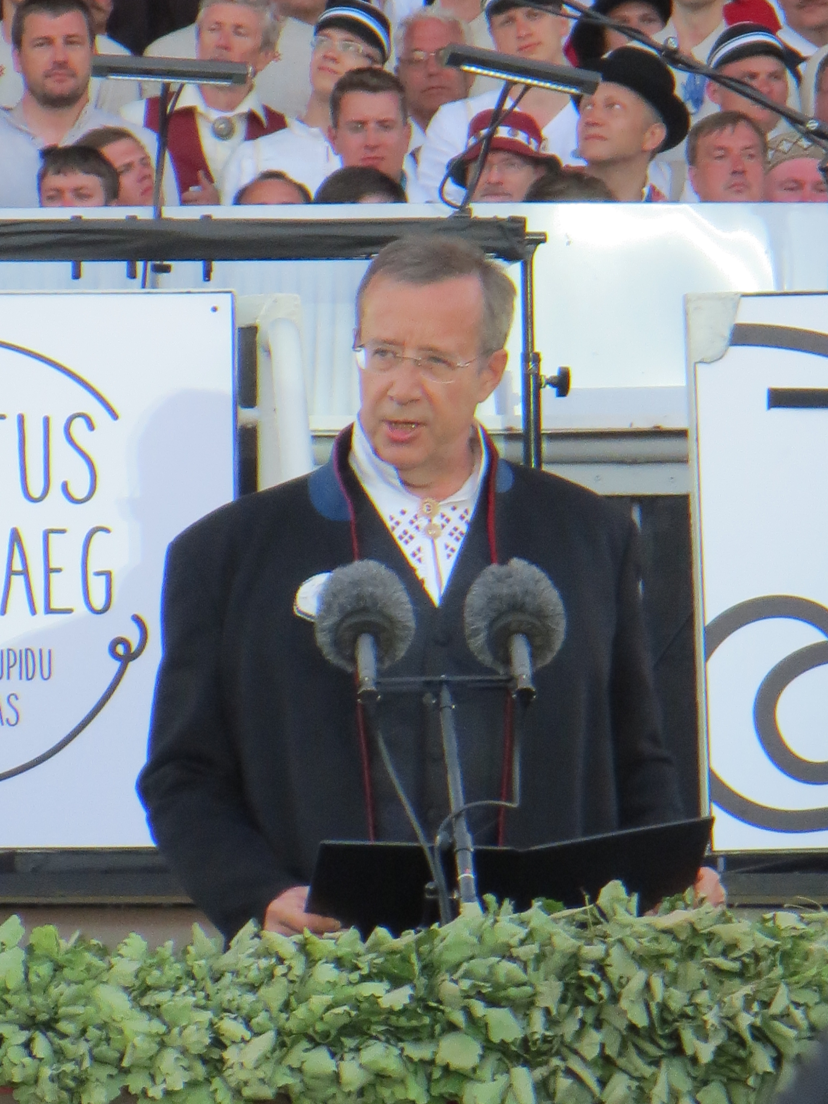 XXVI Estonian Song Celebration